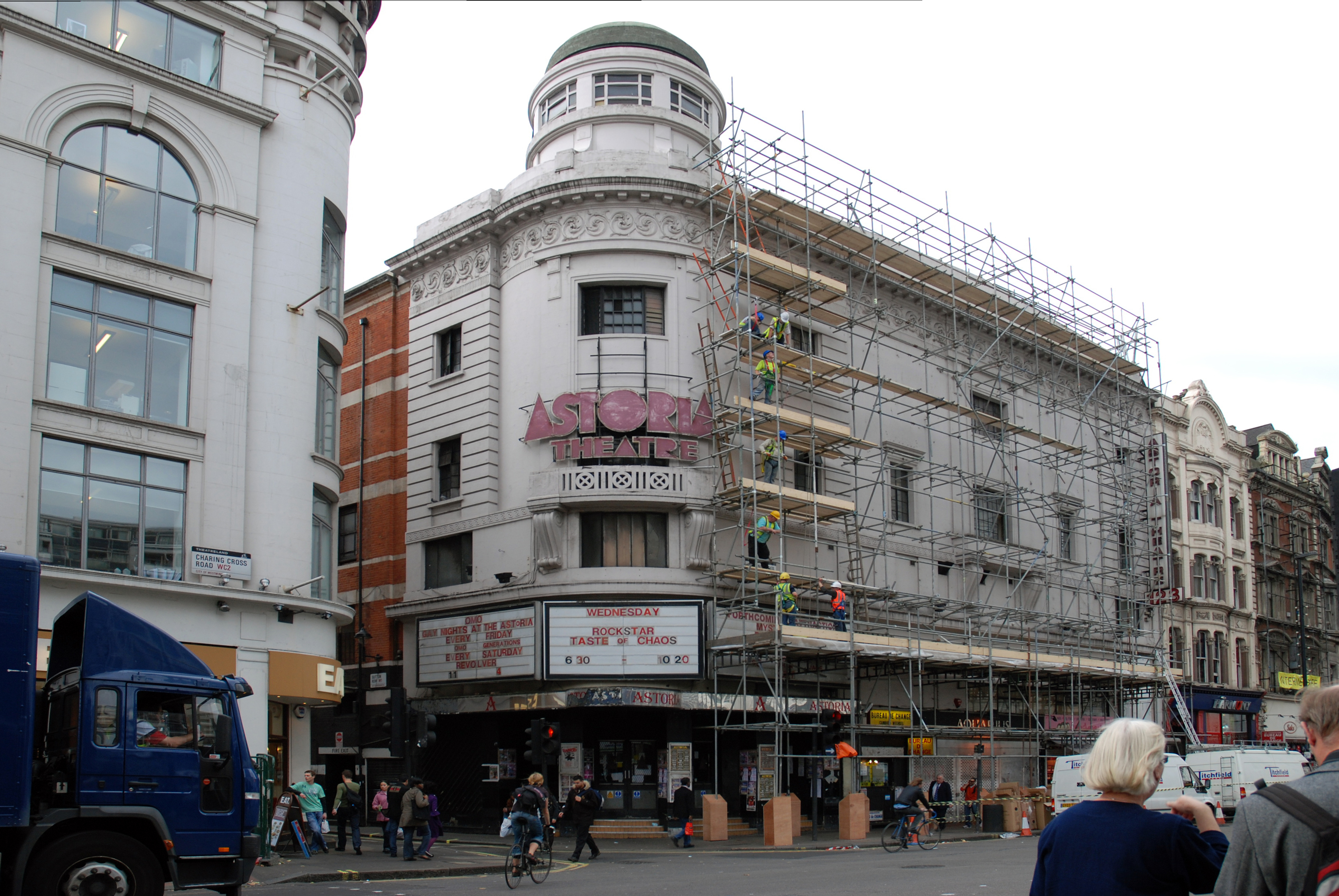 The London Astoria theatre in October 2008, workmen preparing the building for demolition.